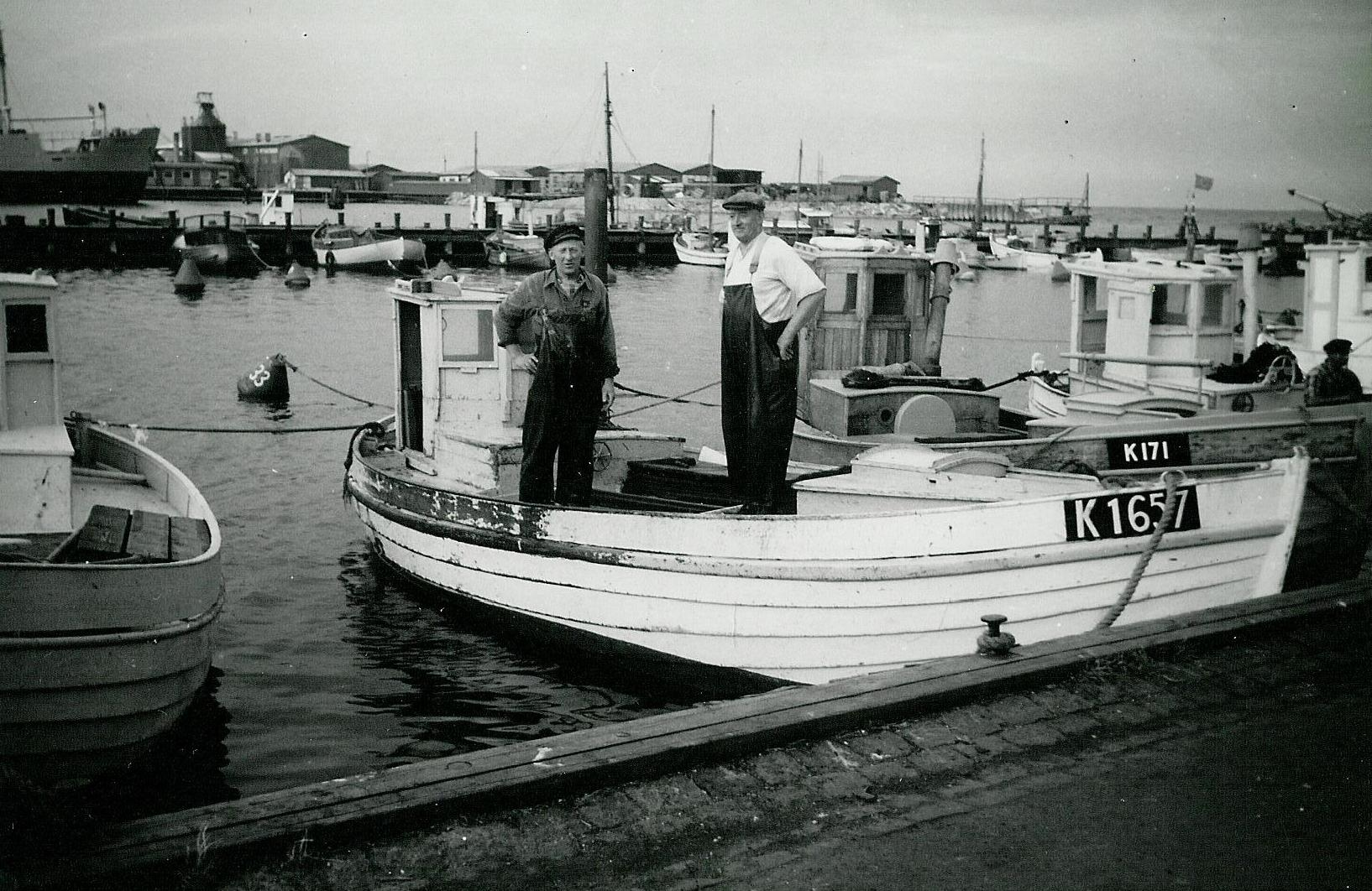 Fishermen Børge Laursen and Jacob Andersen aboard of "Marie". They made roughly 10 trips with jewish refugees to Sweden in october 1943